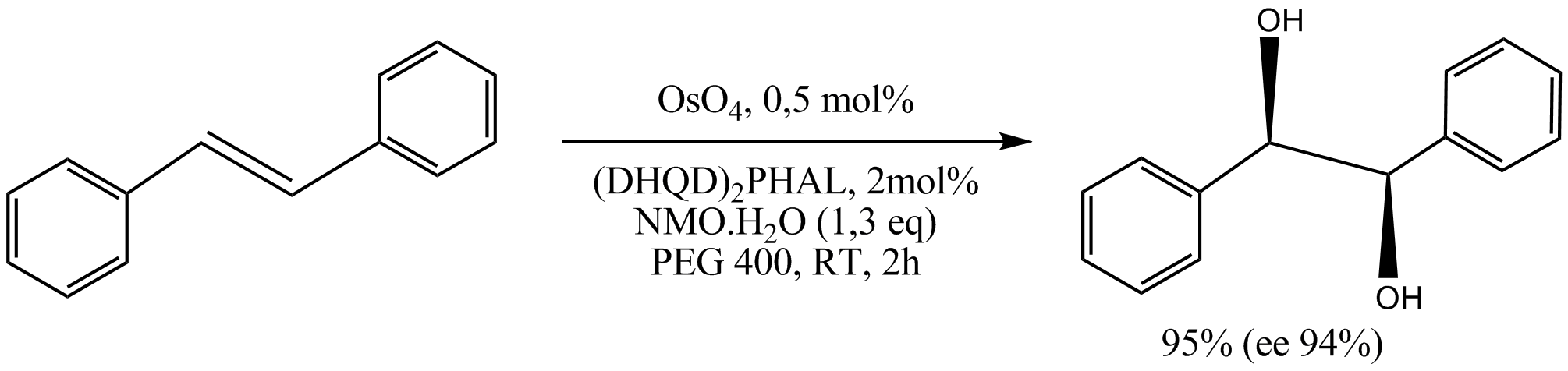 Catalytic Asymmetric Dihydroxylation